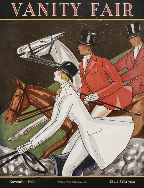 Vanity Fair Cover (November 1924)